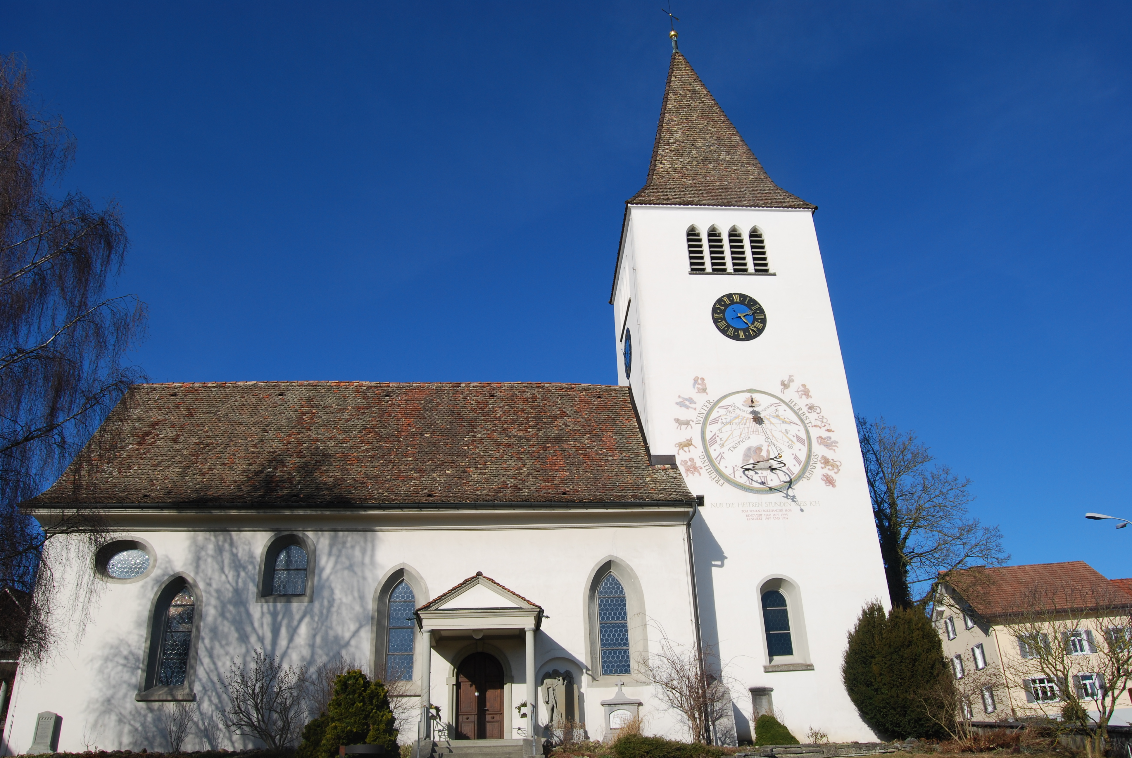 Church of Märstetten, canton of Thurgovia, Switzerland